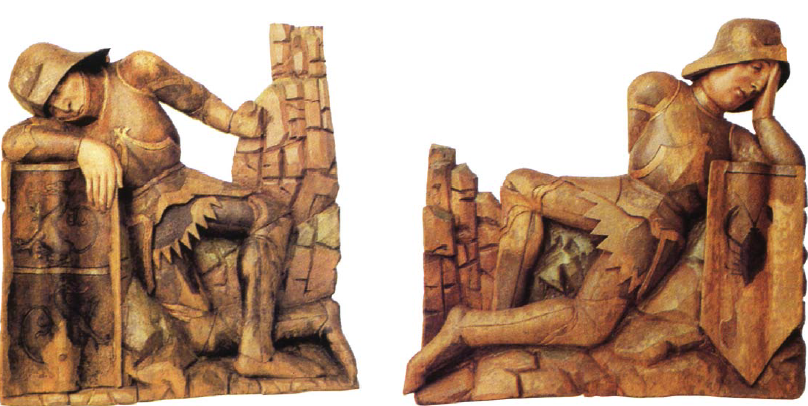 Infantrymen in the church of Garamszentbenedek, present-day Hronský Beňadik (1470s)